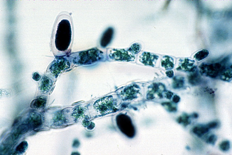 Light micrograph of a whole-mount slide of unilocular structures of Ectocarpus